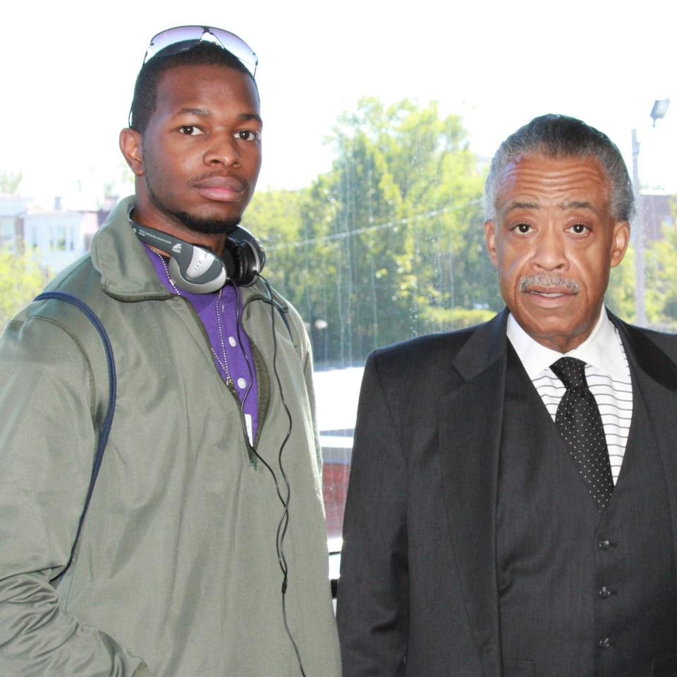 Antonio James providing video services for National Action Network, Memphis Chapter, with Al Sharpton.